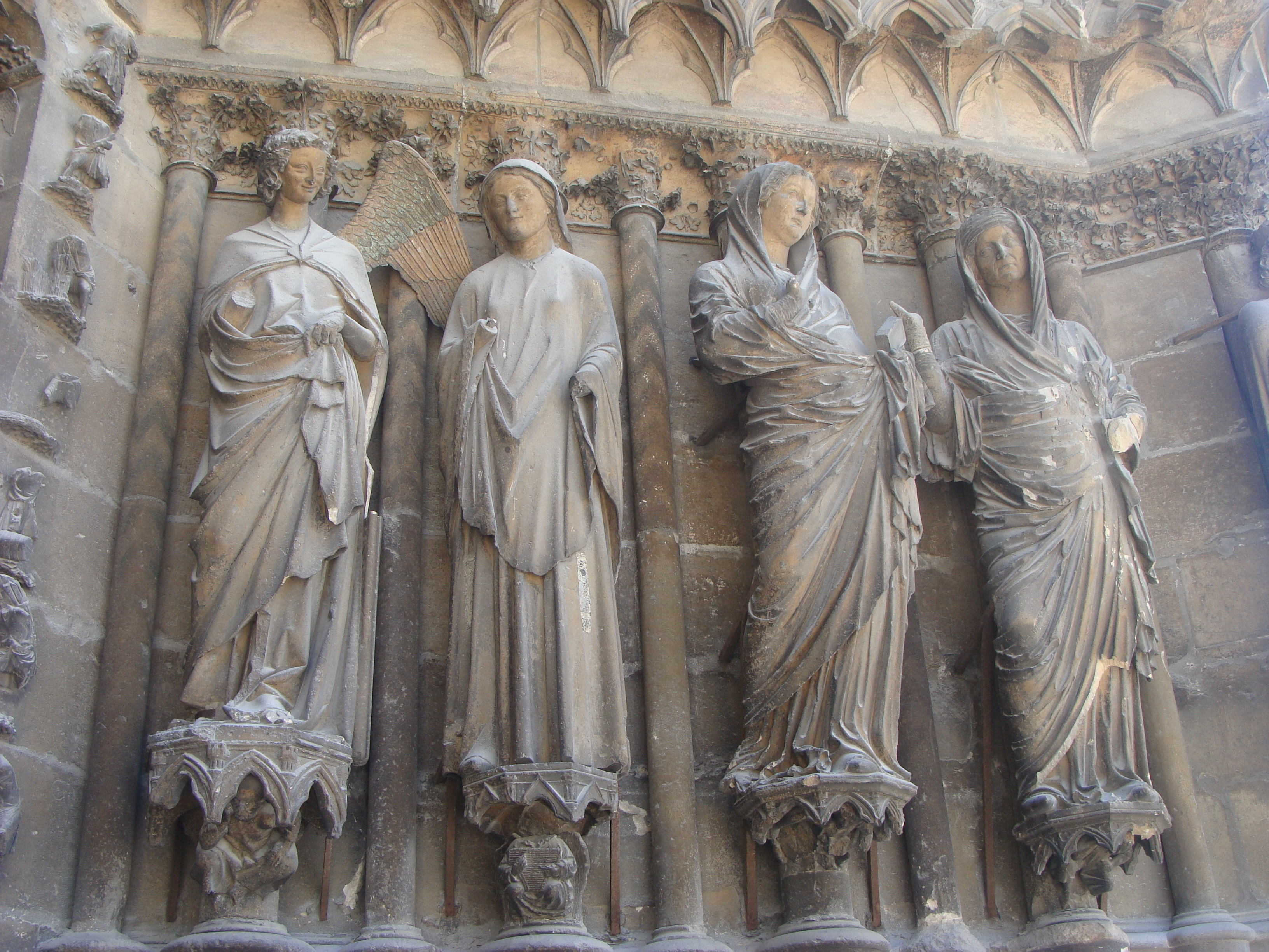 Reims Cathedral, Central doorway